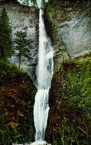 Multnomah Falls before bridge was built